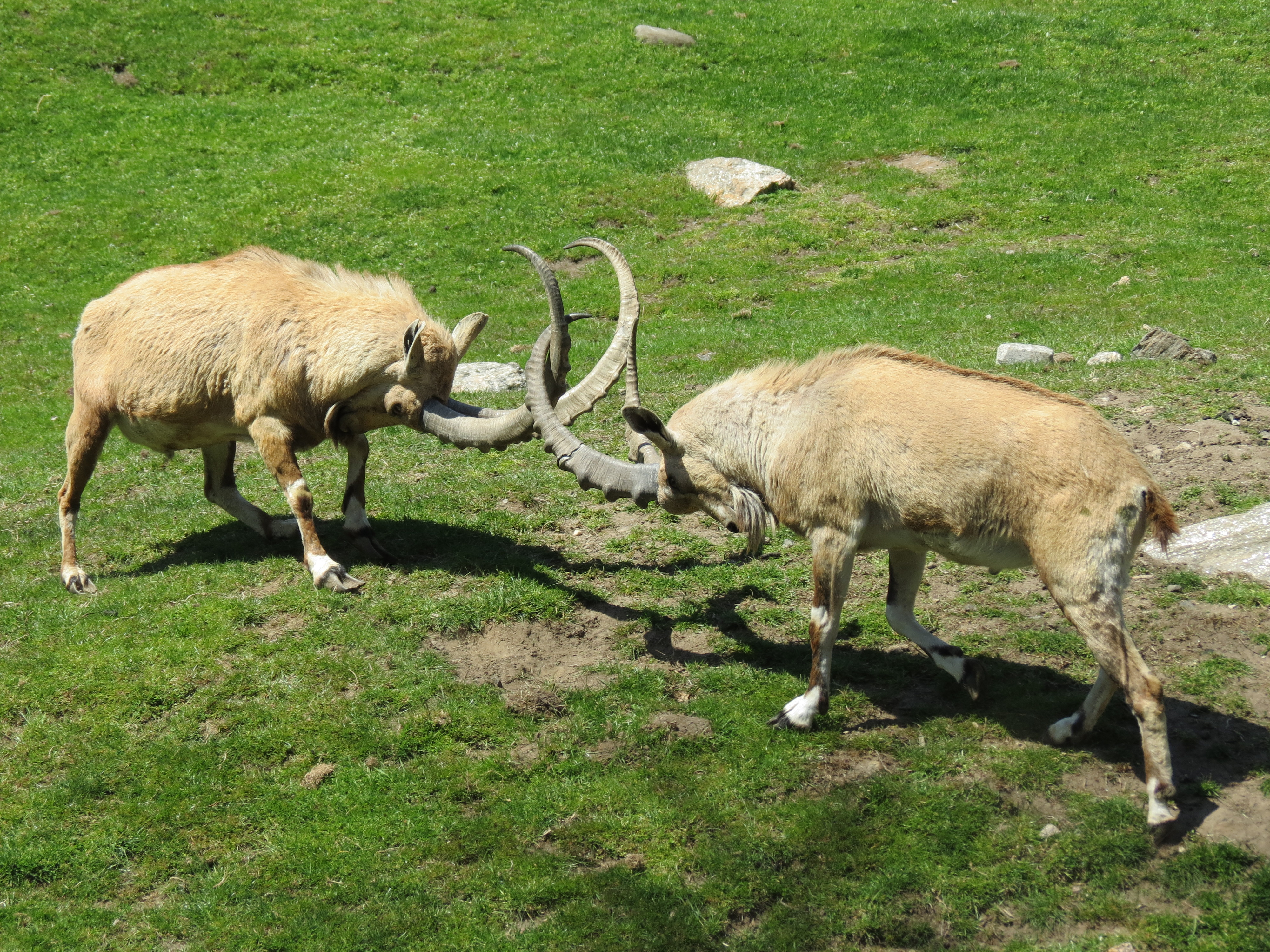 Bronx Zoo